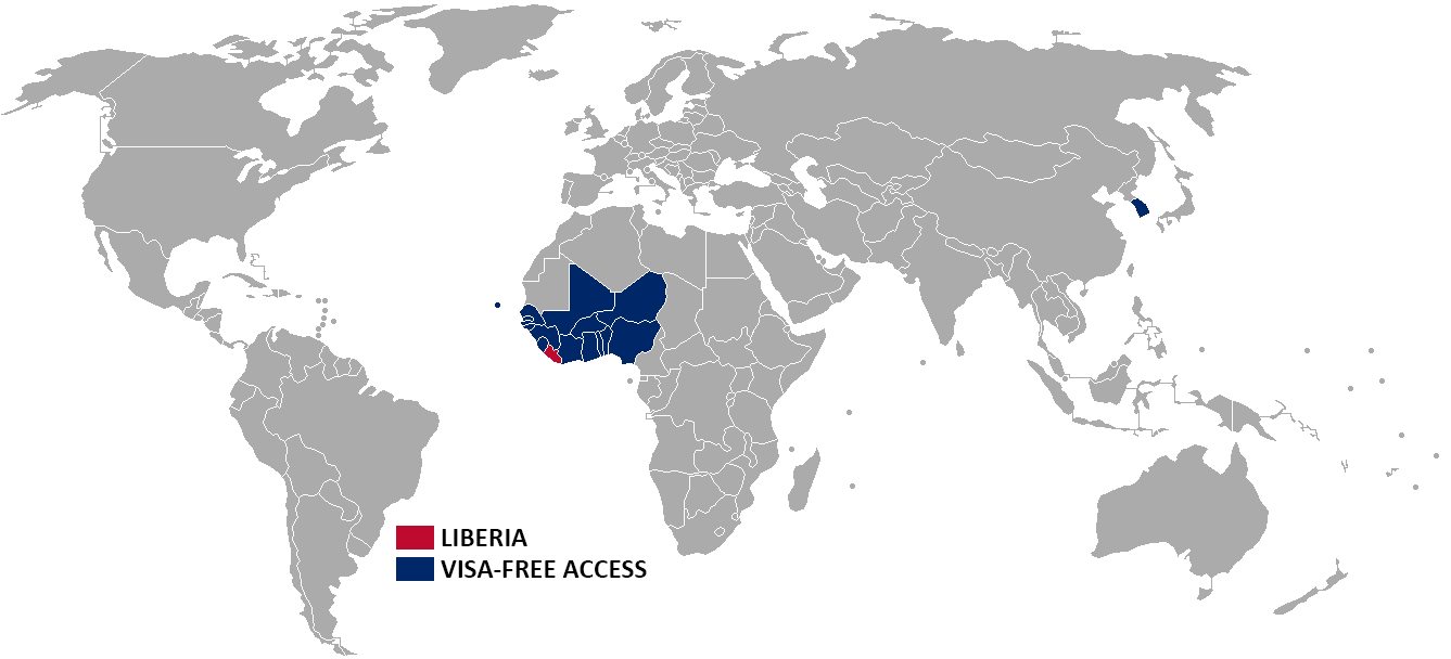 Visa policy of Liberia Liberia Visa exempt